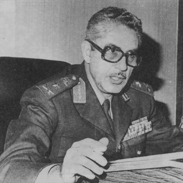 Lieutenant General Abd Rab el-Nabi Hafez. He commanded the Egyptian 16th Infantry Division during the Yom Kippur War as a Brigadier General.